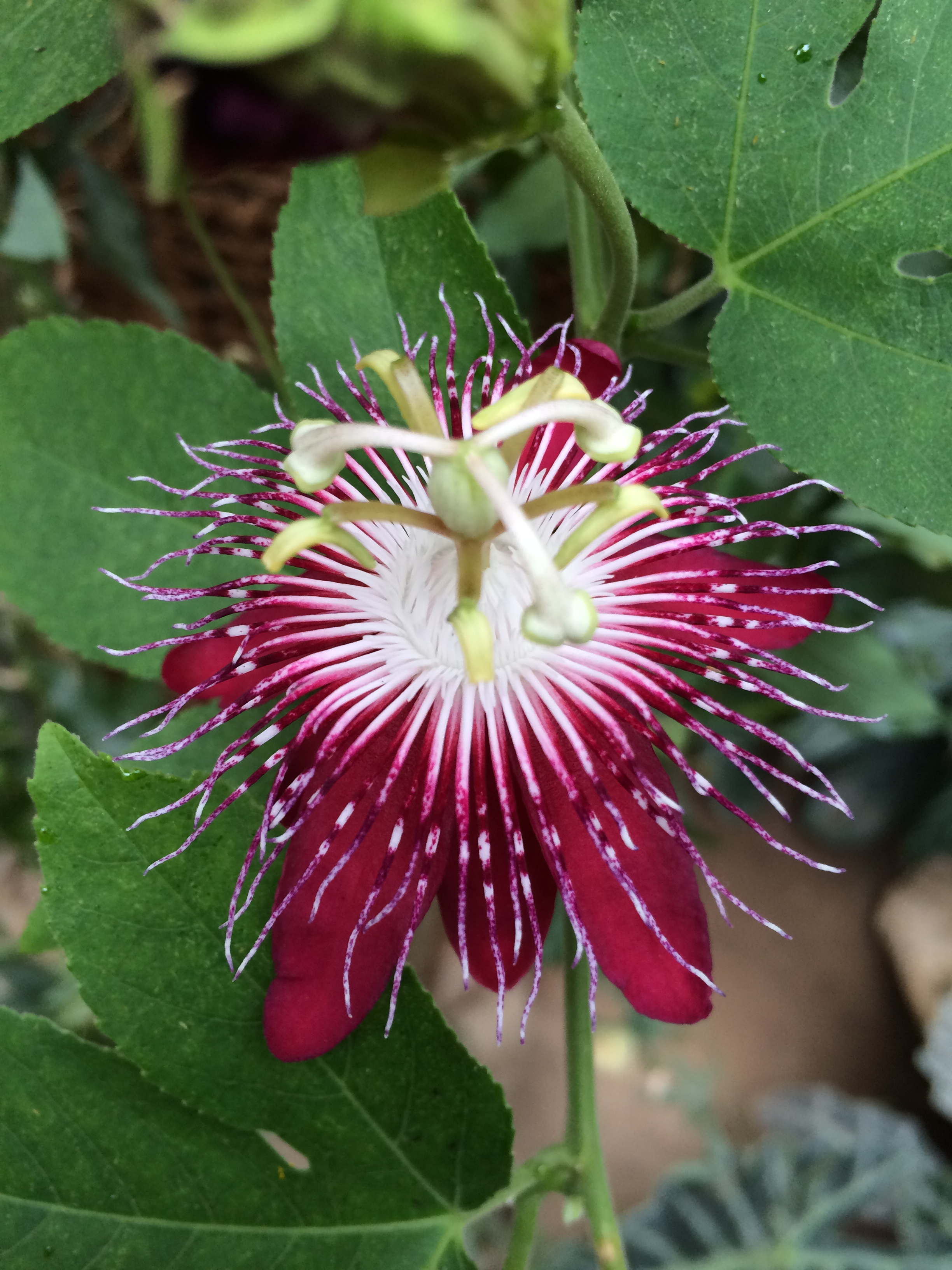 Passiflora 'Lady Margaret'